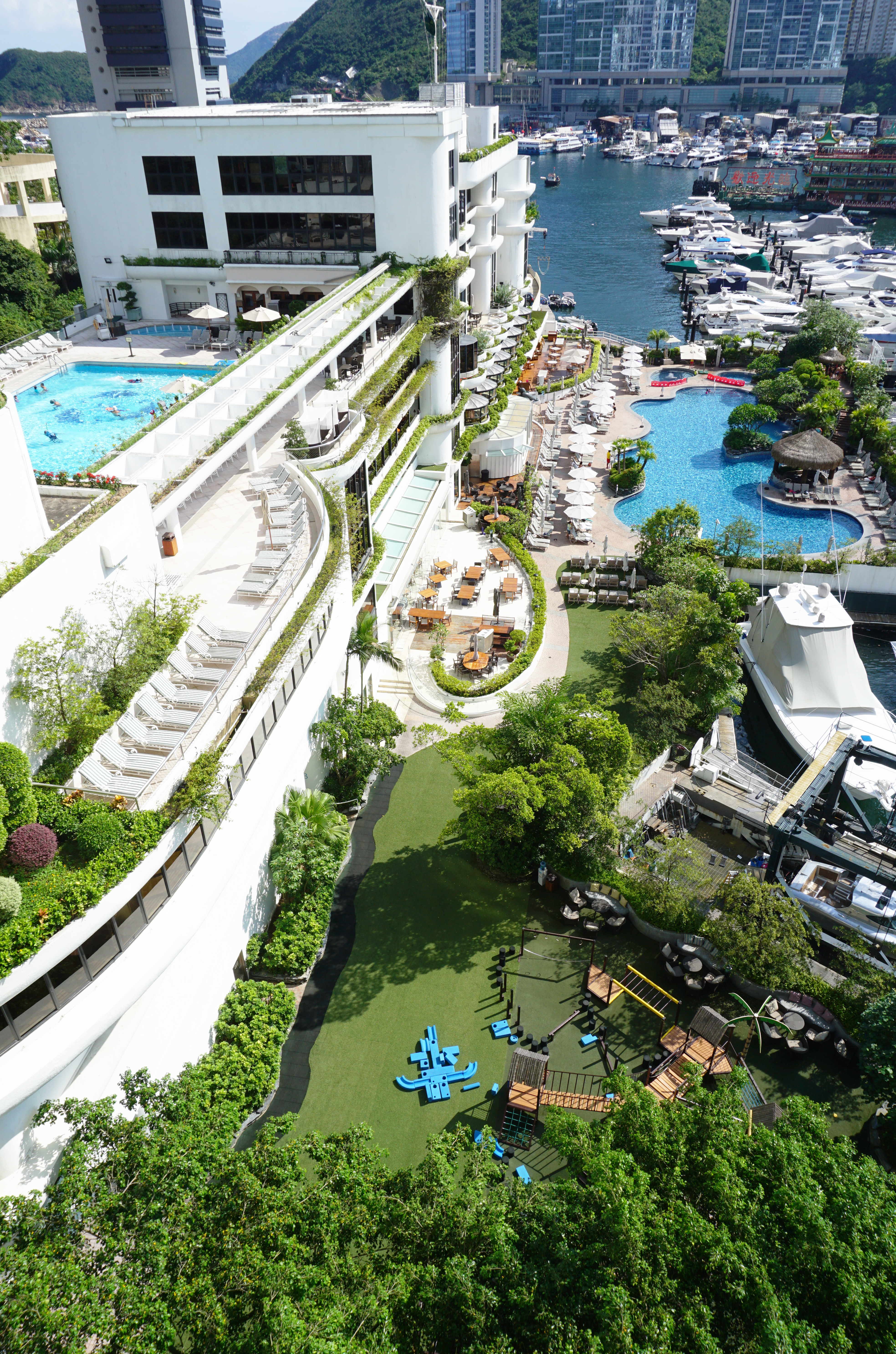 Aberdeen Marina Club in Sham Wan, Hong Kong.